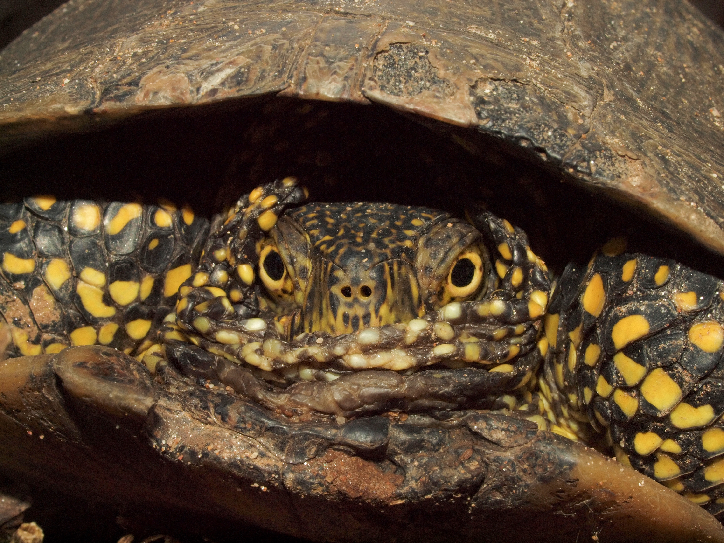 Emys orbicularis. Losar de la Vera (Cáceres, España).